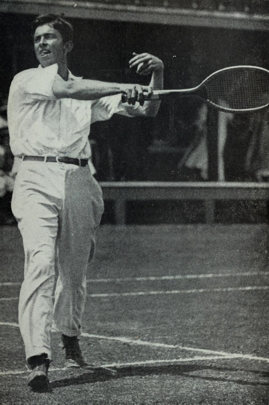 Picture of Maurice McLoughlin